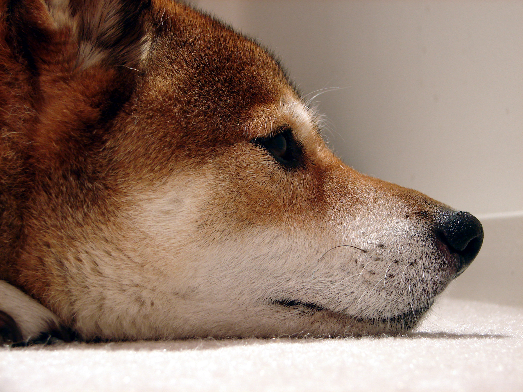 Leo, deep in thought